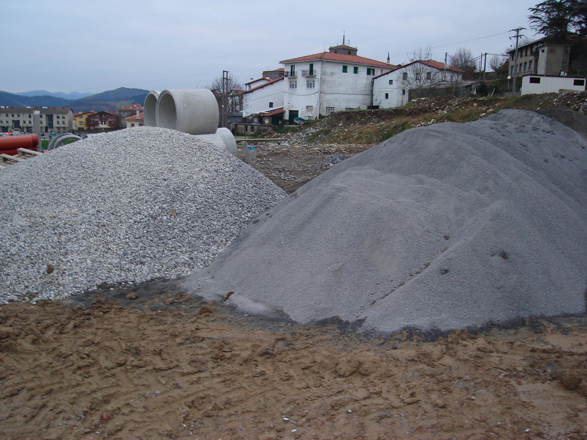 Bi agregakin mota / Two different construction aggregate.